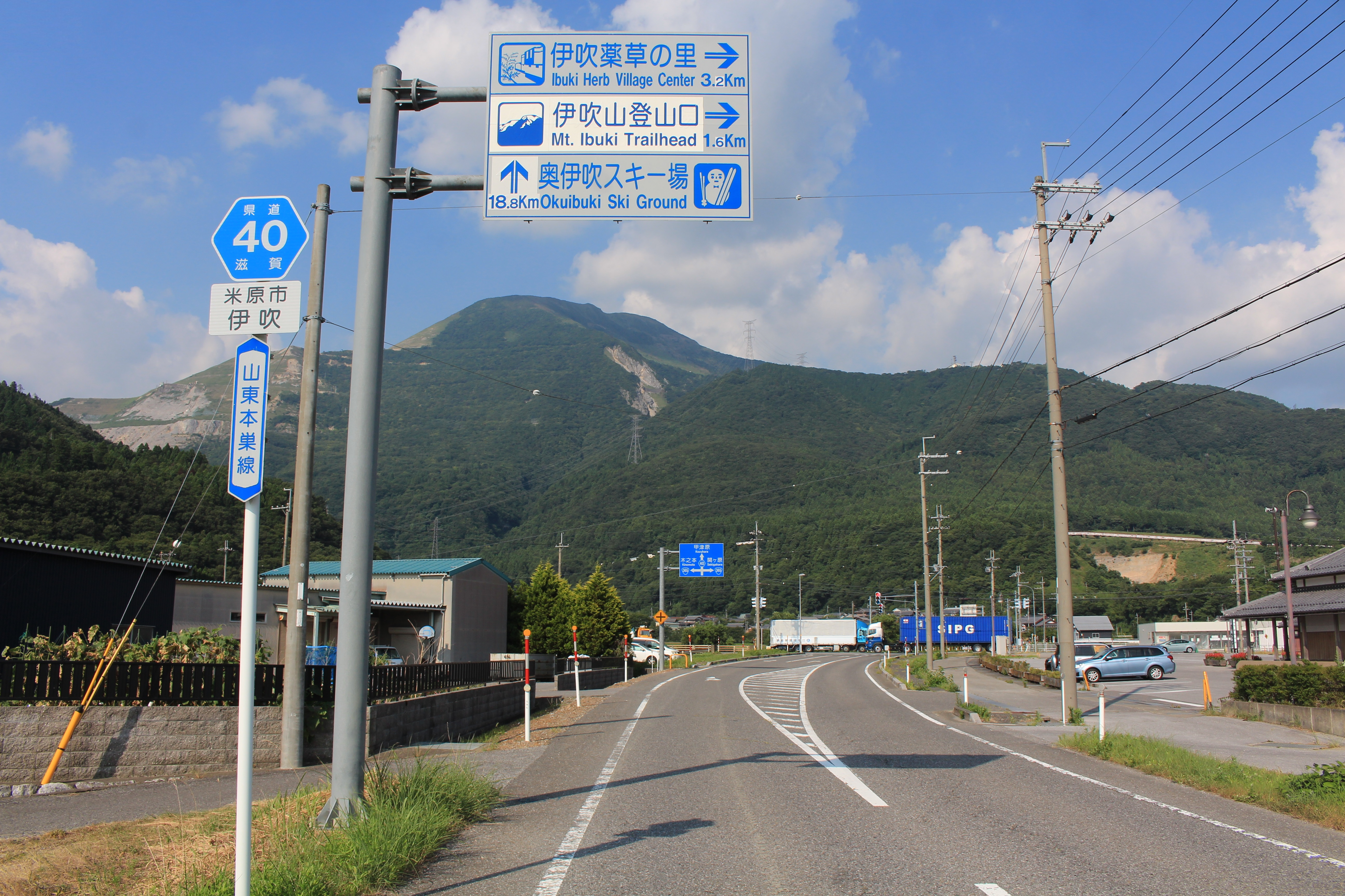 Shiga Prefectural Road Route 40 and Mount Ibuki, in Ibuki, Maibara, Shiga prefecture, Japan.